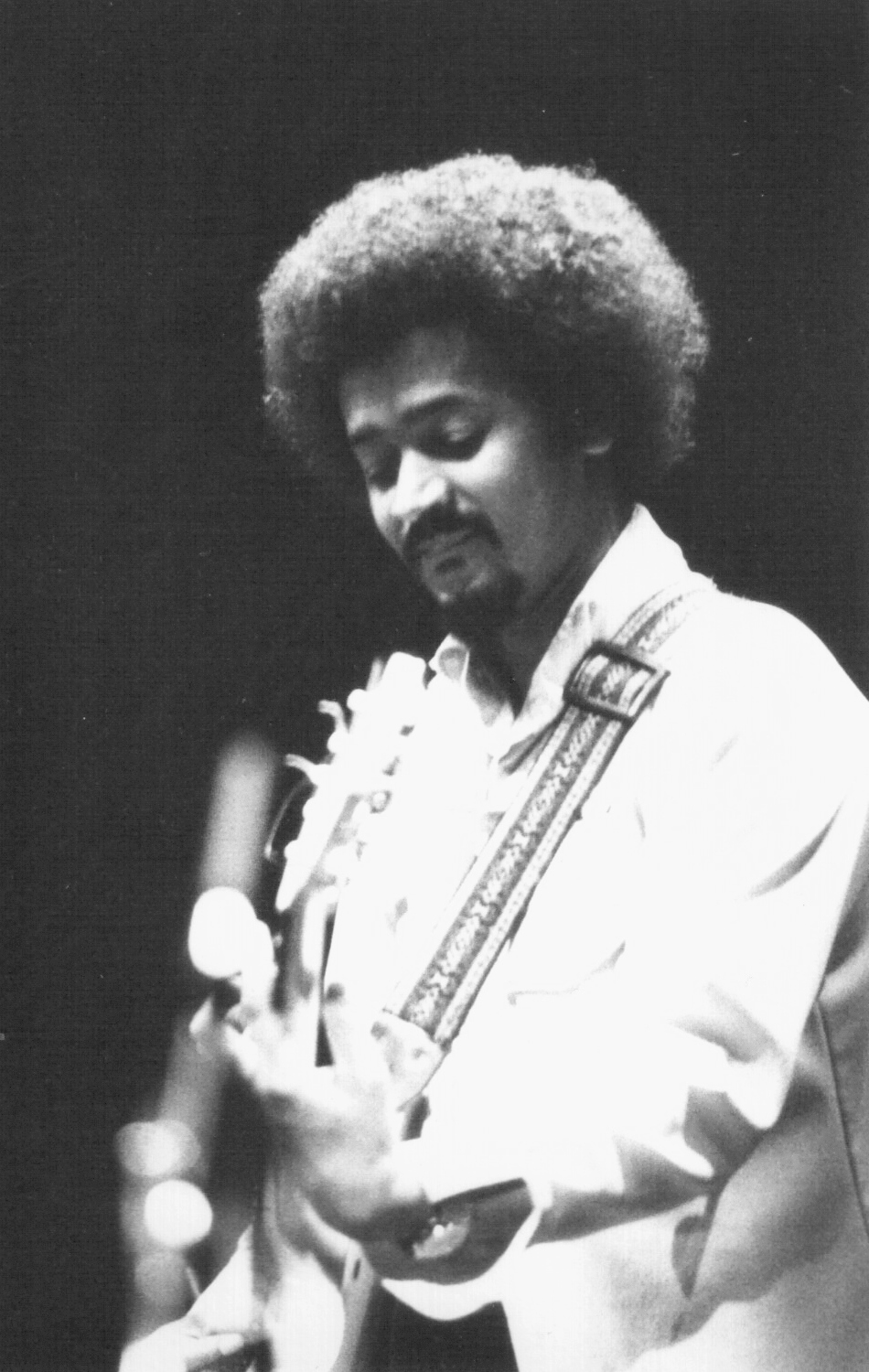 Guitarist Paul Senegal in the Clifton Chenier Orchestra, in Paris, France